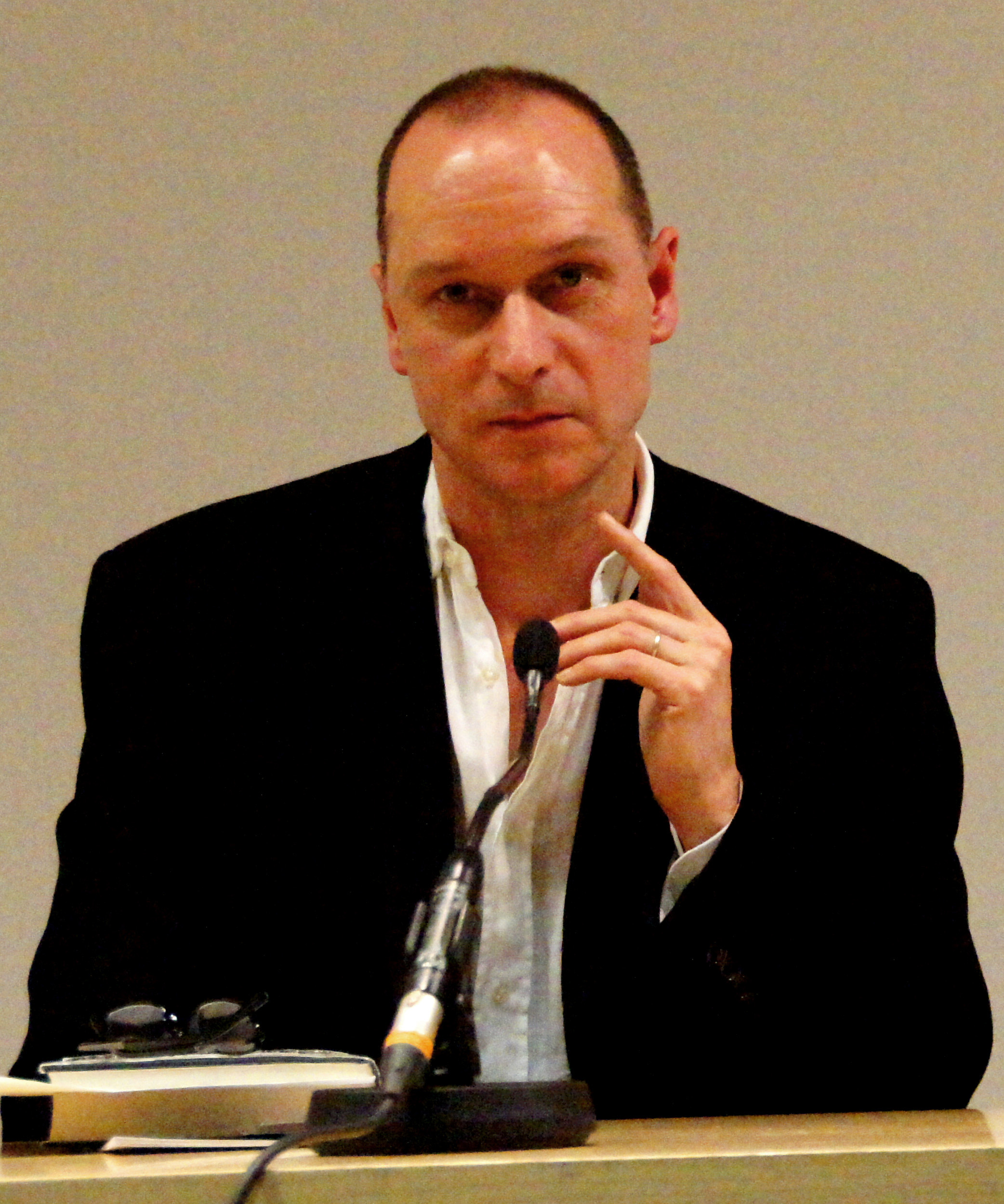 See file name. The author was presented by Austrian journalist Gabi Madeja. German version of this novel was read by Wolfram Berger.